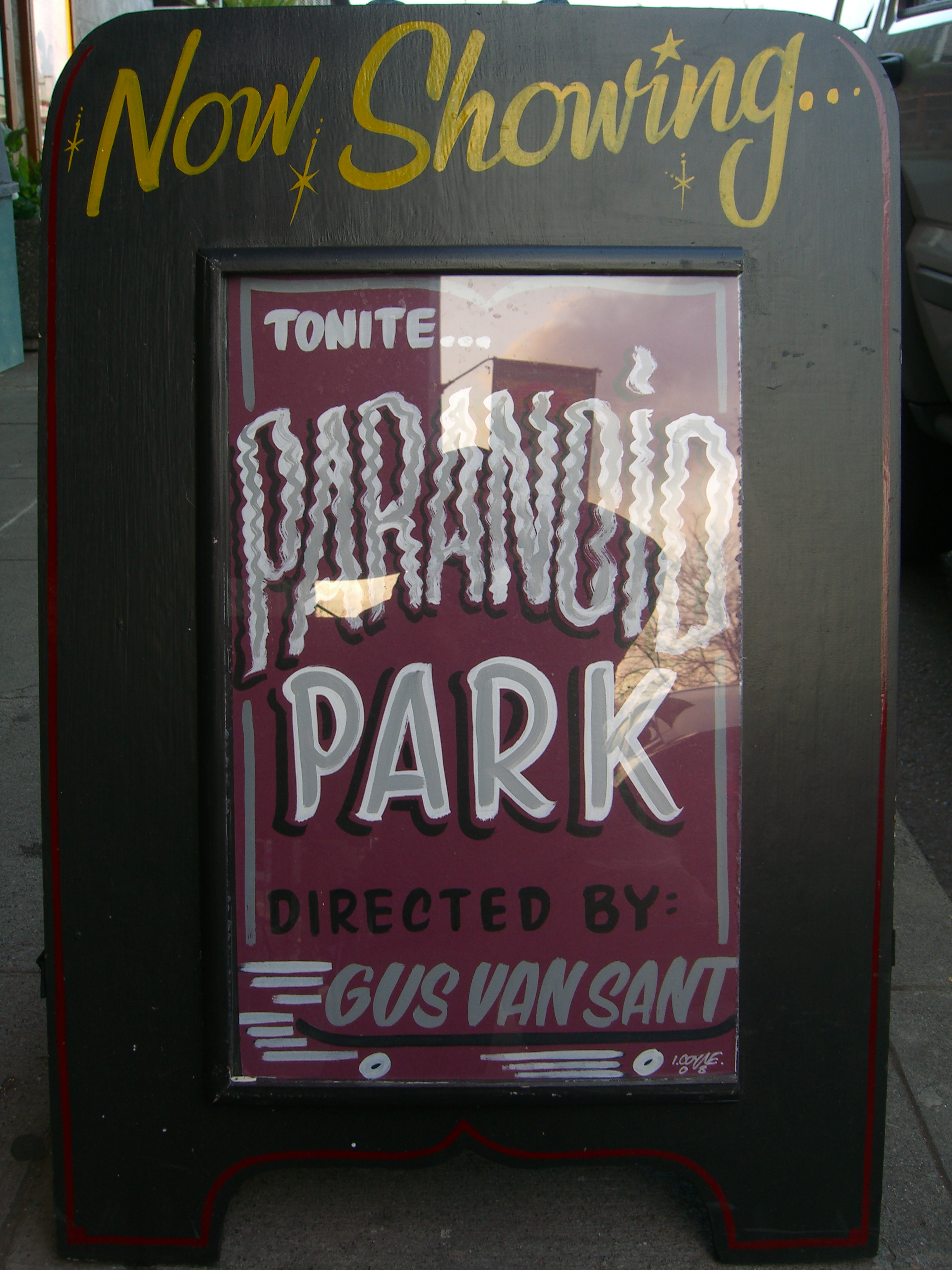 Olympia, WA